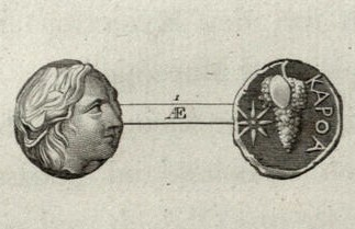 Ancient coin from Karthaia city, Kea island, Greece. Face: tête bacchique couronnée Pile: grappe de raisin entre une étoile et les lettres ΚΑΡΘA